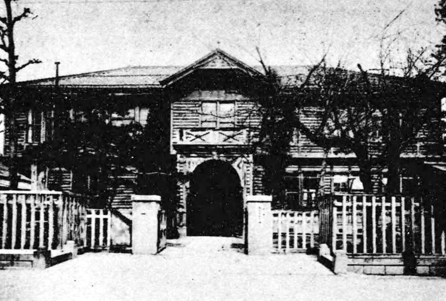 Kamiminochi district office.